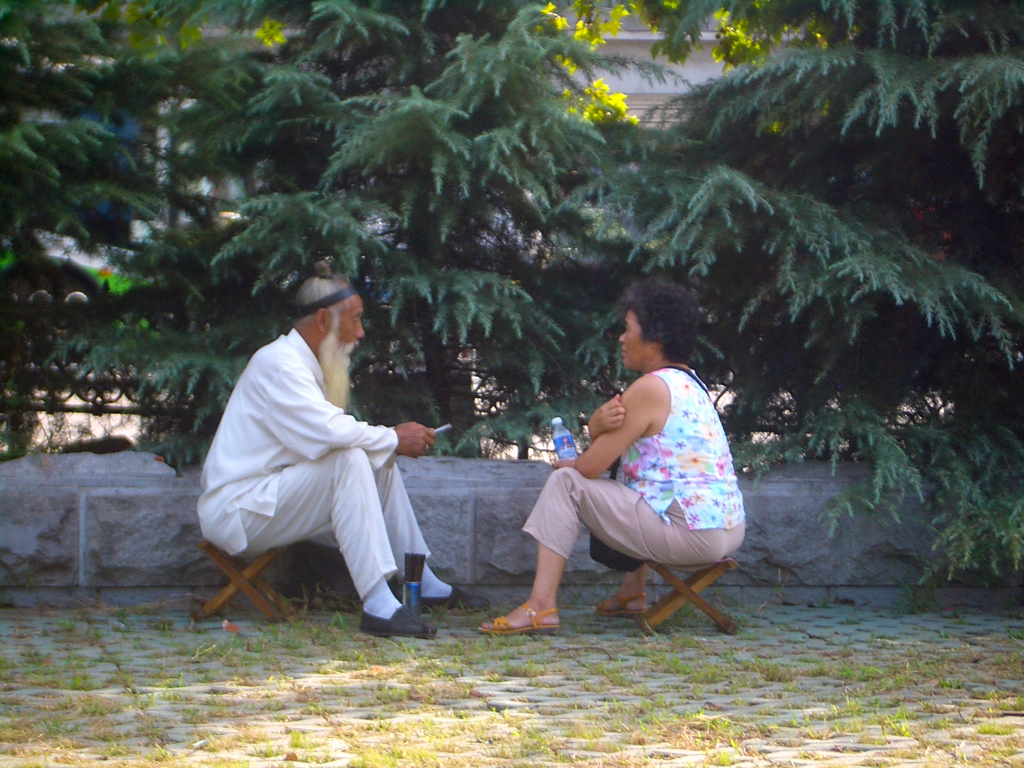 A fortune-teller with a customer in a parking lot outside of Changchun Guan, a Taoist Temple in Wuhan